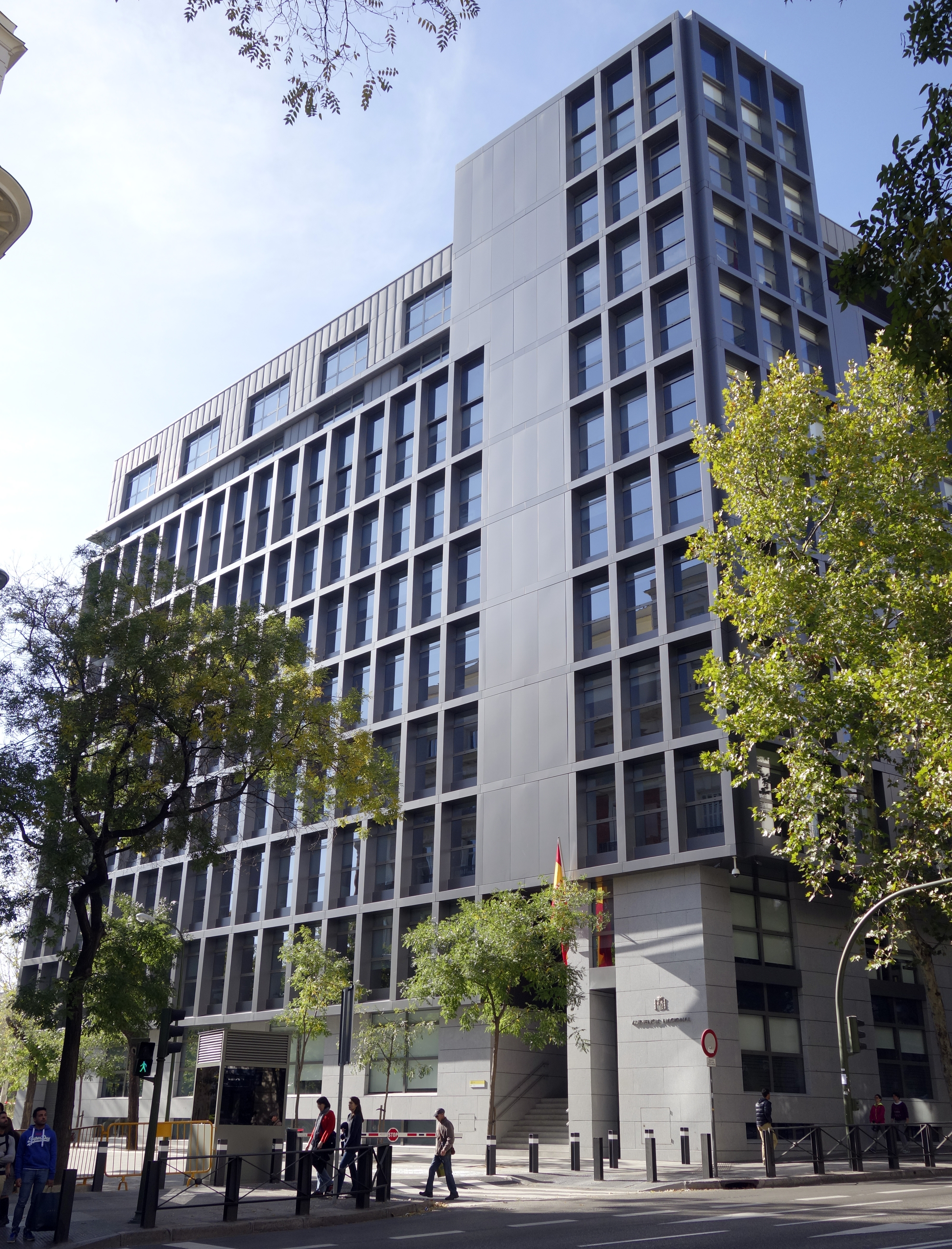 Audiencia Nacional (National Court) building in Madrid